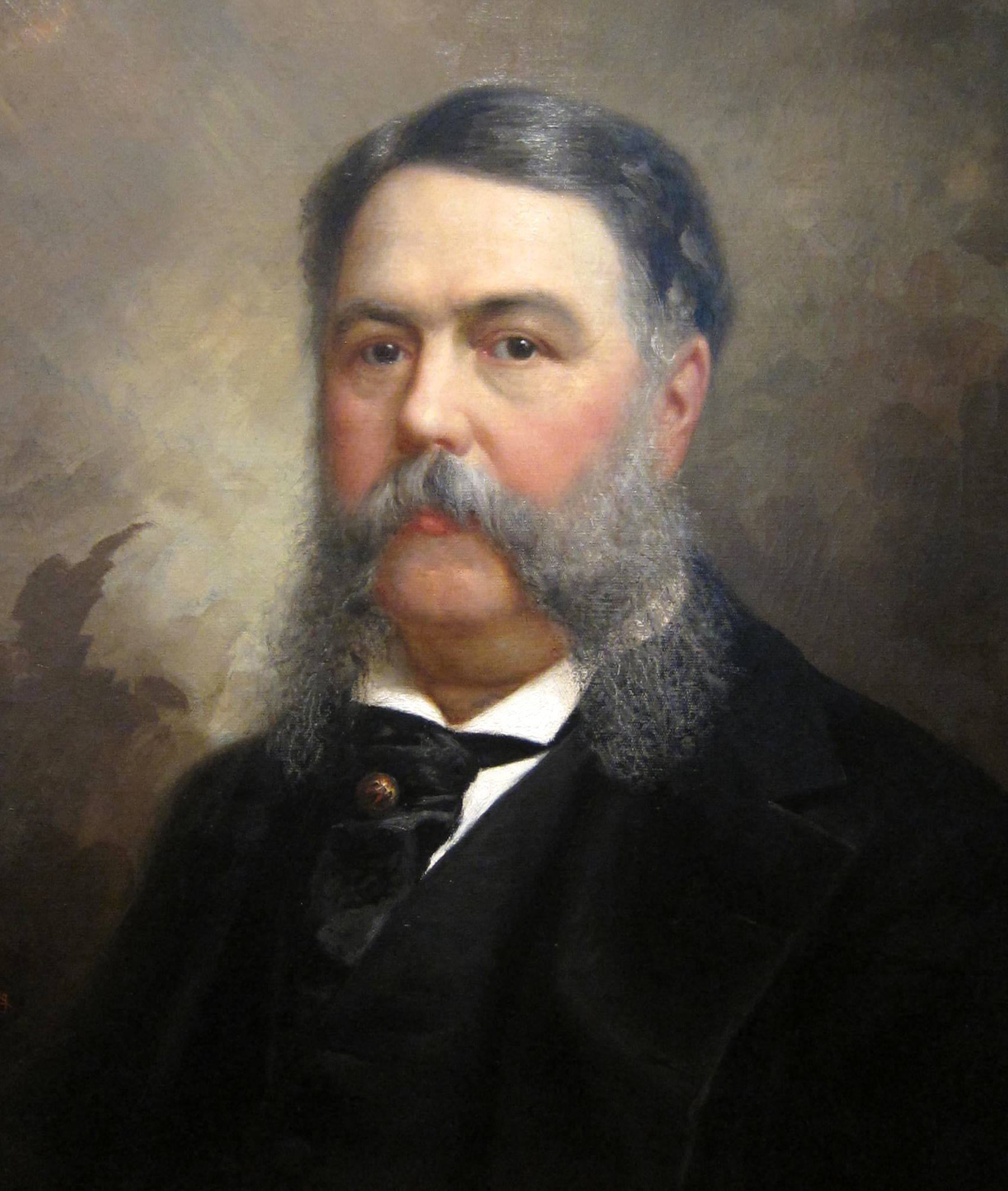 A portrait of Chester A. Arthur located inside the National Portrait Gallery in Washington, D.C.